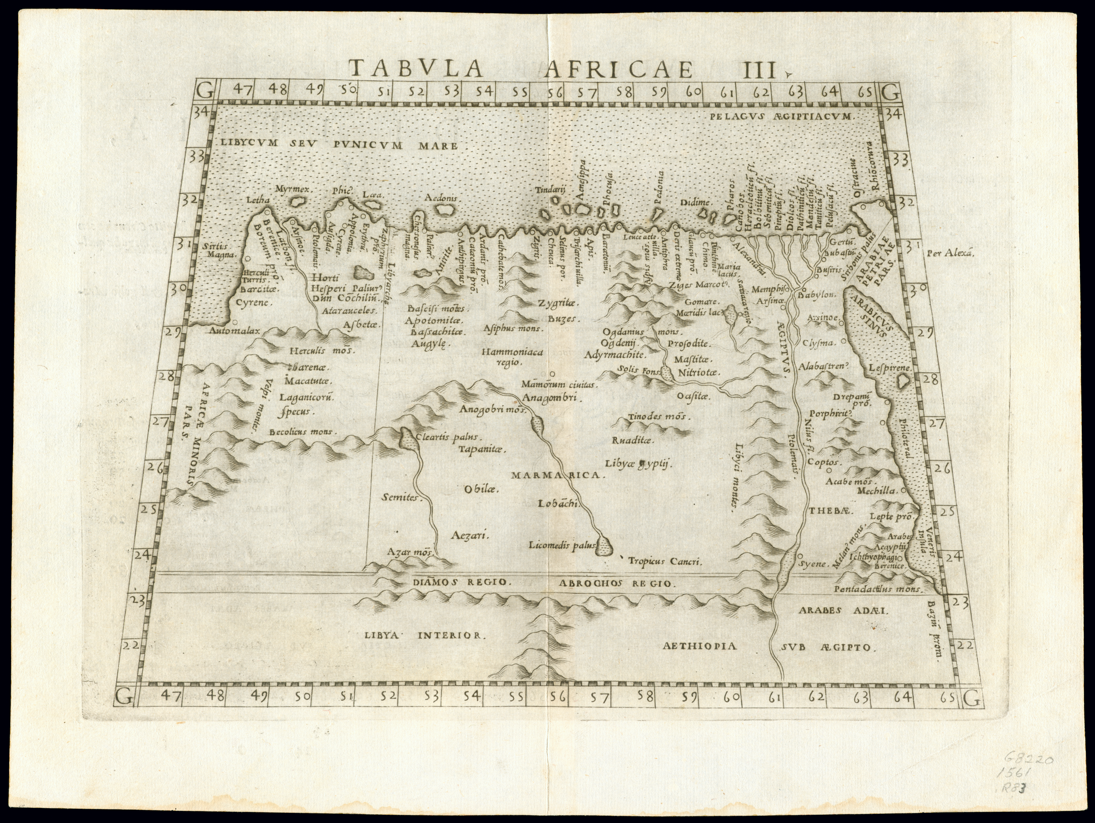 Relief shown pictorially. Map covers Egypt and Northeast Africa. Detached from La geografia di Claudio Tolomeo Alessandrino, and based on a 1548 edition by Giacomo Gastaldi. (Source:North West University Library